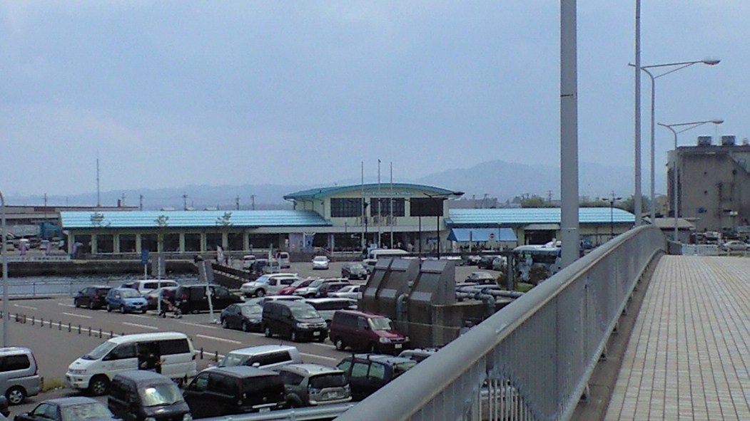 Outside of Roadside Station Himi,Toyama Prefecture.